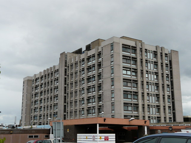 Hospital Block The main wards of Doncaster Royal Infirmary.